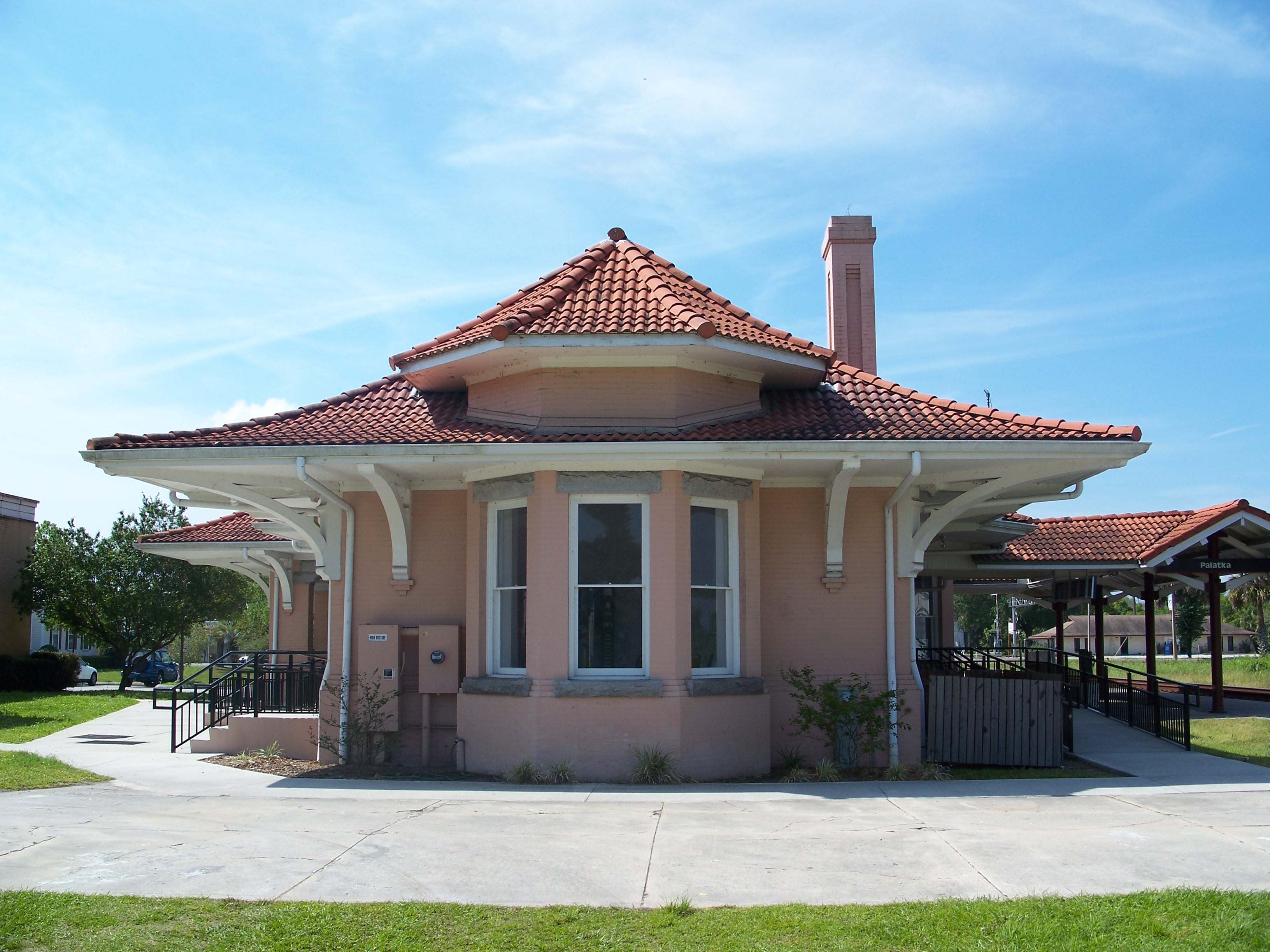 Old Atlantic Coast Line Union Depot, in Palatka, Florida